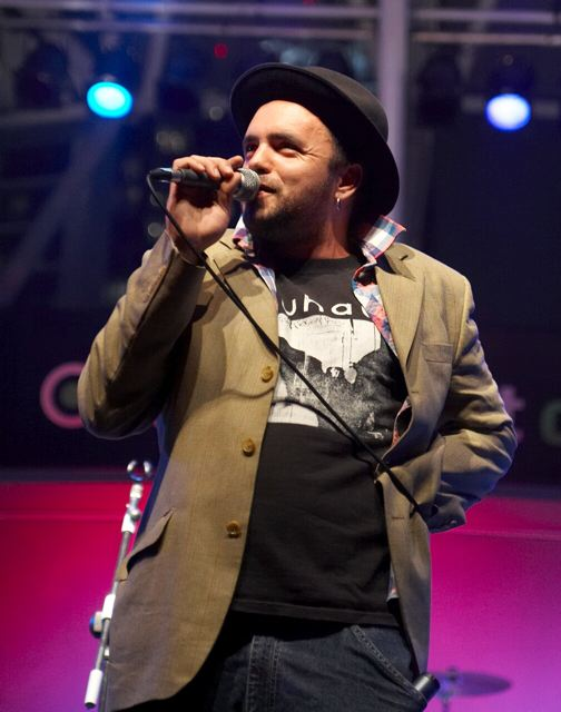 Hawksley Workman performing in Toronto, Ontario, Canada